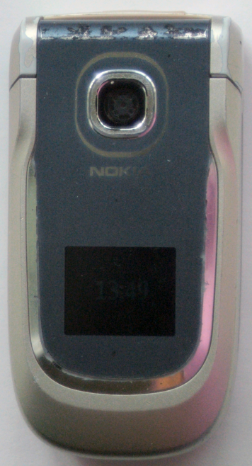 Photo of Nokia 2670 mobile phone